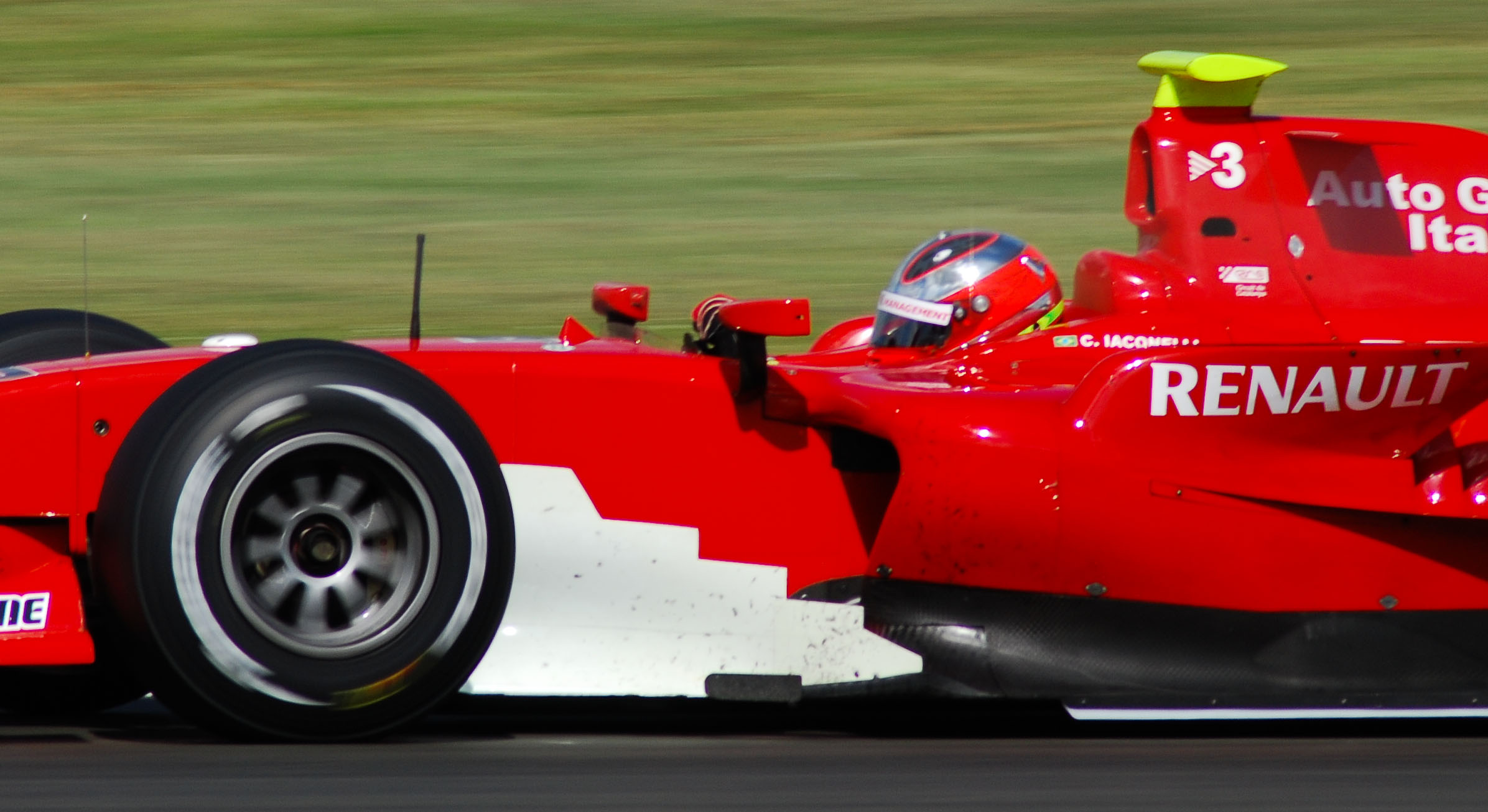 Carlos Iaconelli driving for BCN Competición at the Silverstone round of the 2008 GP2 Series season.